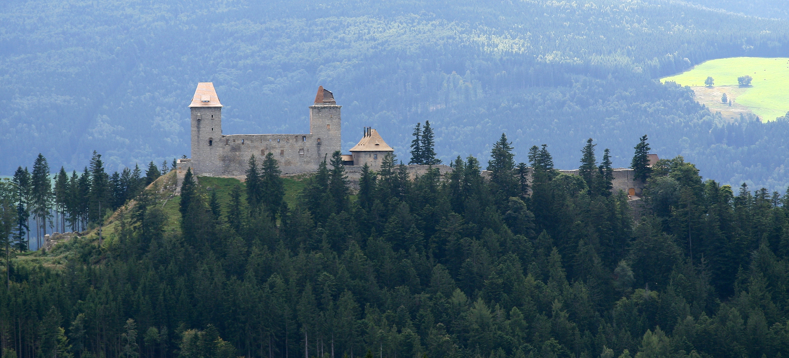 Kašperk Castle near Kašperské Hory, Klatovy District, Czech Republic